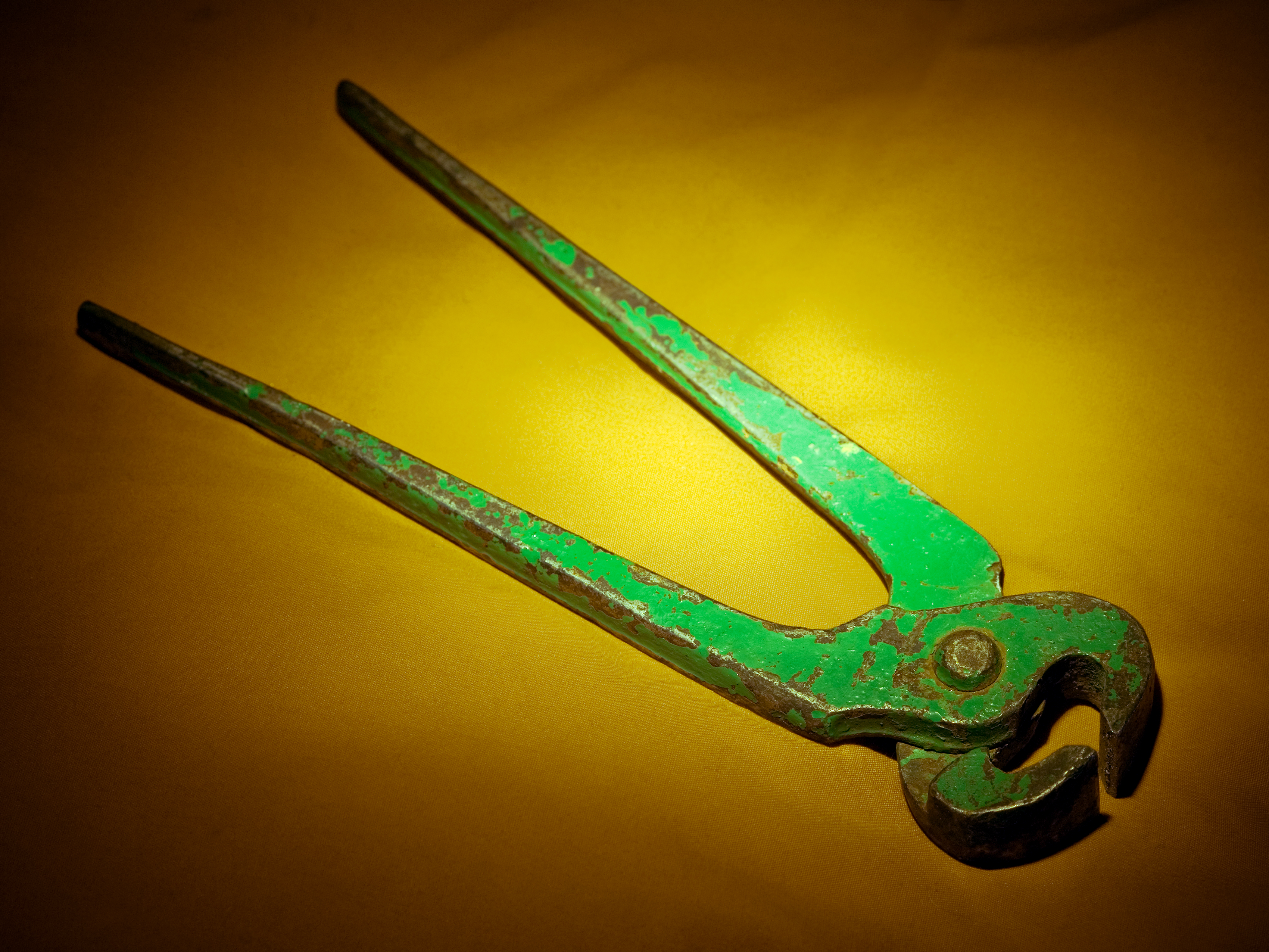 Green pincers on a yellow background.